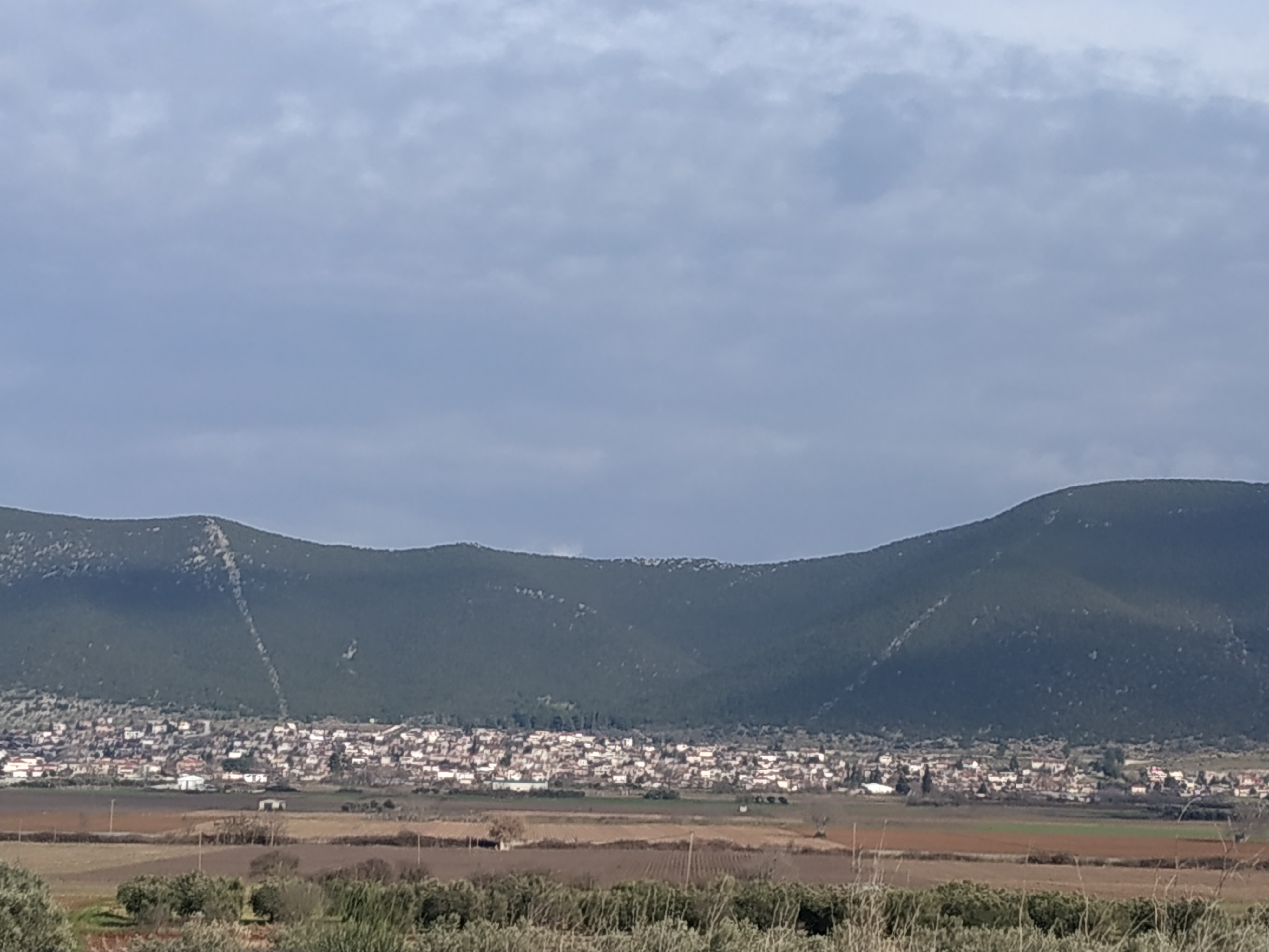 View of the town of Sourpi.